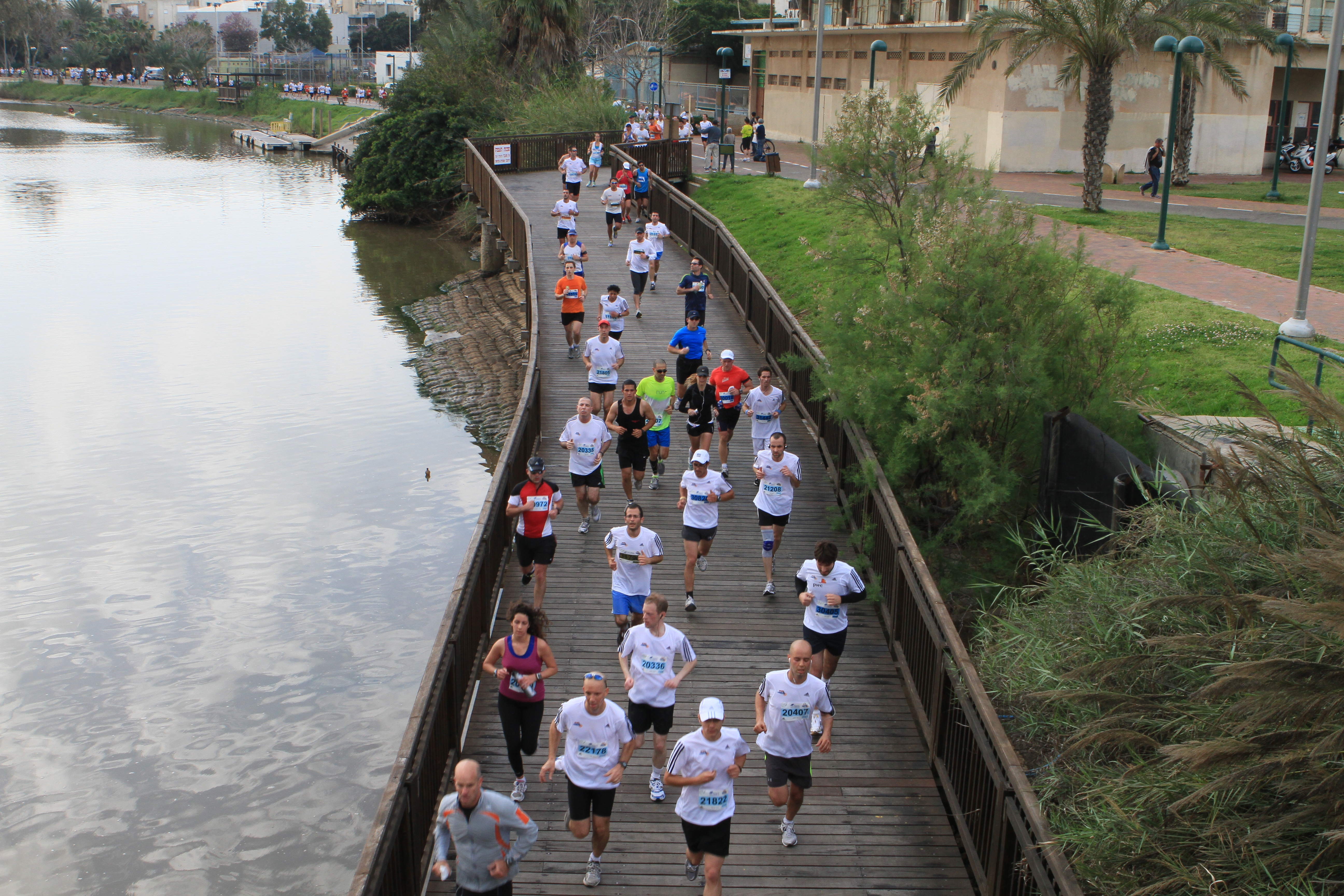 Marathon Tel Aviv, a view of Hayarkon